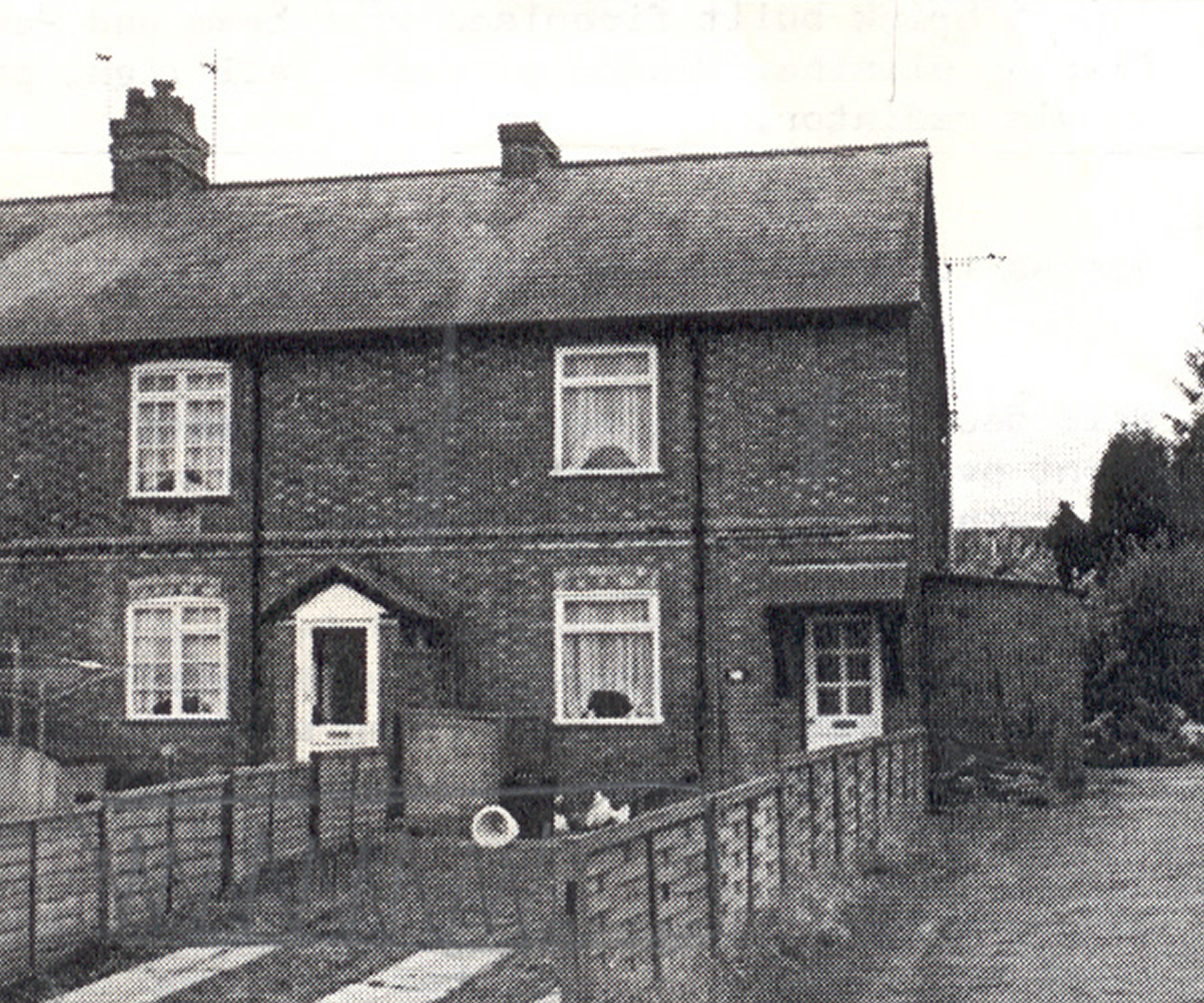 Slapton, Buckinghamshire (England, United Kingdom) : The Slapton cottage where an exorcism took place in 1993.